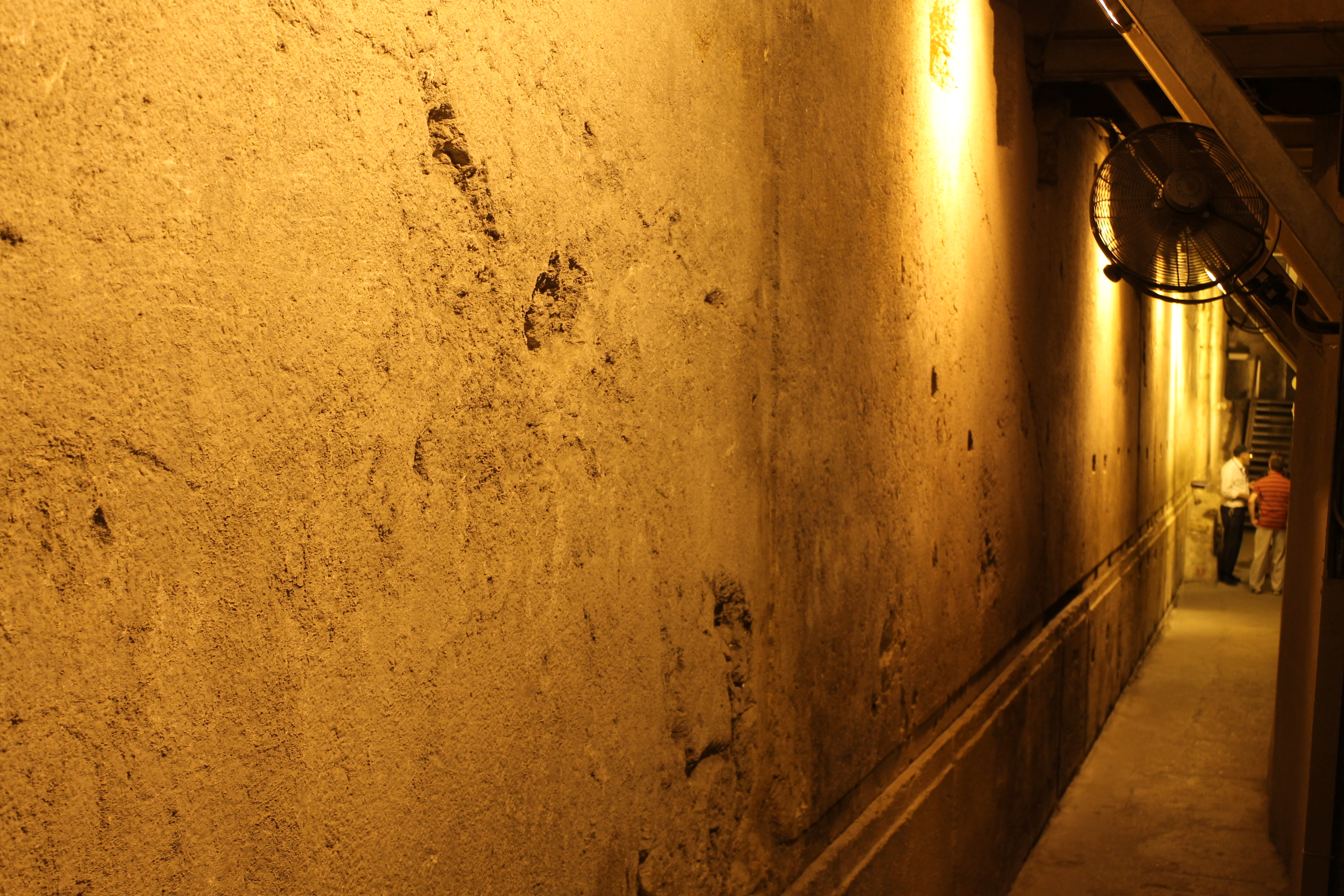 The Huge stone of the western wall